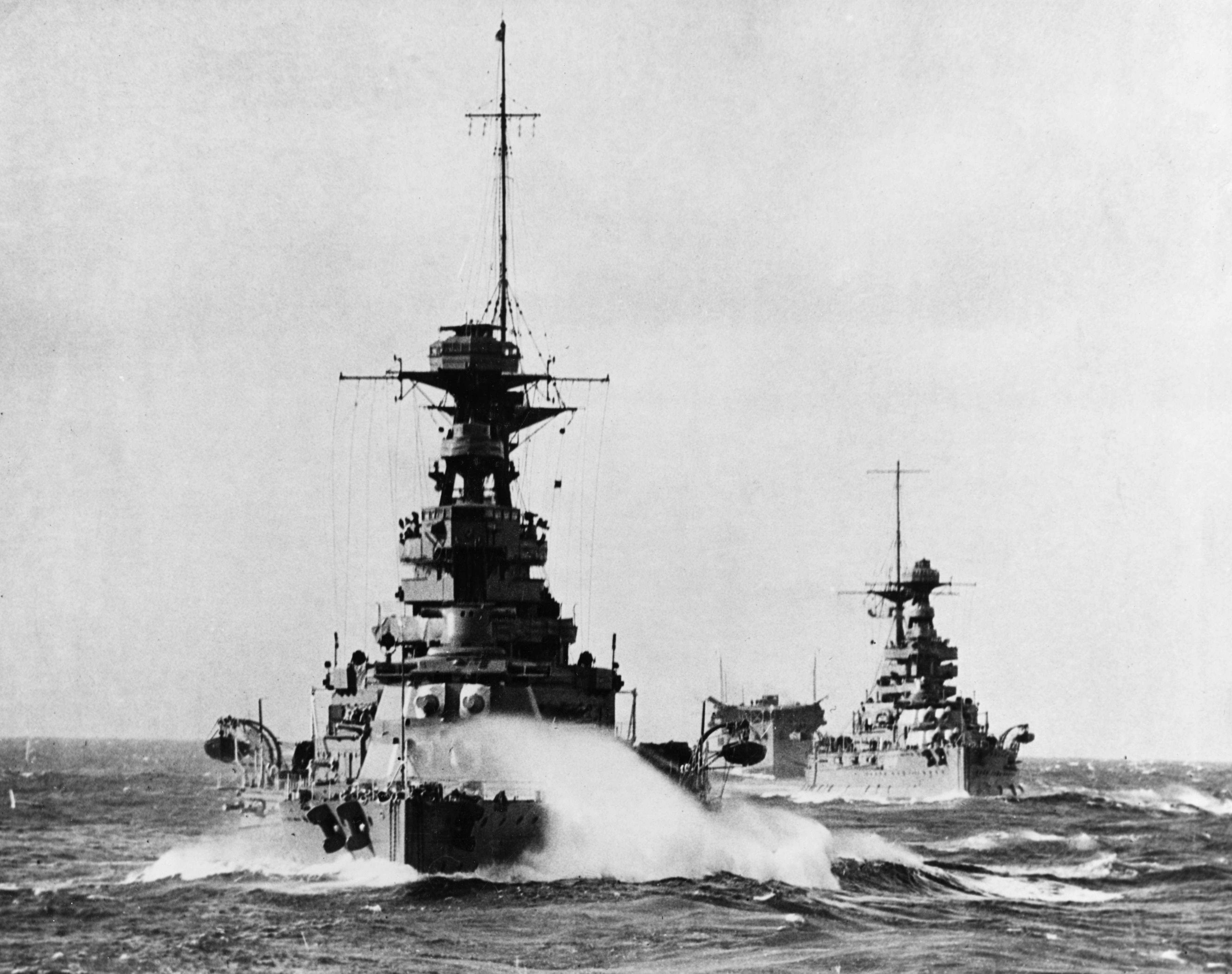 HMS Barham (British battleship, 1915) In heavy seas, while participating in exercises of the Atlantic and Mediterranean Fleets near the Balearic Islands, circa the late 1920s, as seen from HMS Rodney. Barham is followed by the battleship Malaya and the aircraft carrier Argus.